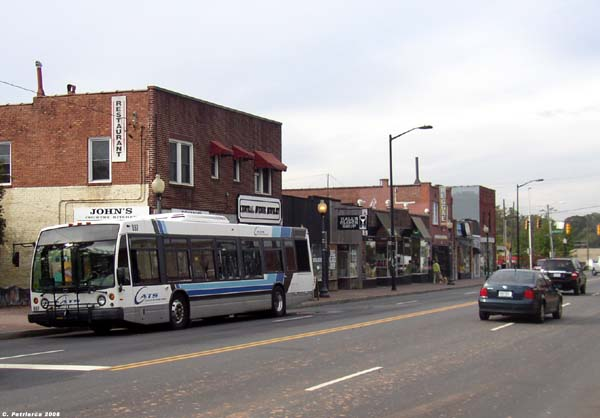 Night view of Central Avenue between Thomas and Pecan in the Plaza-Midwood neighborhood of Charlotte, North Carolina.